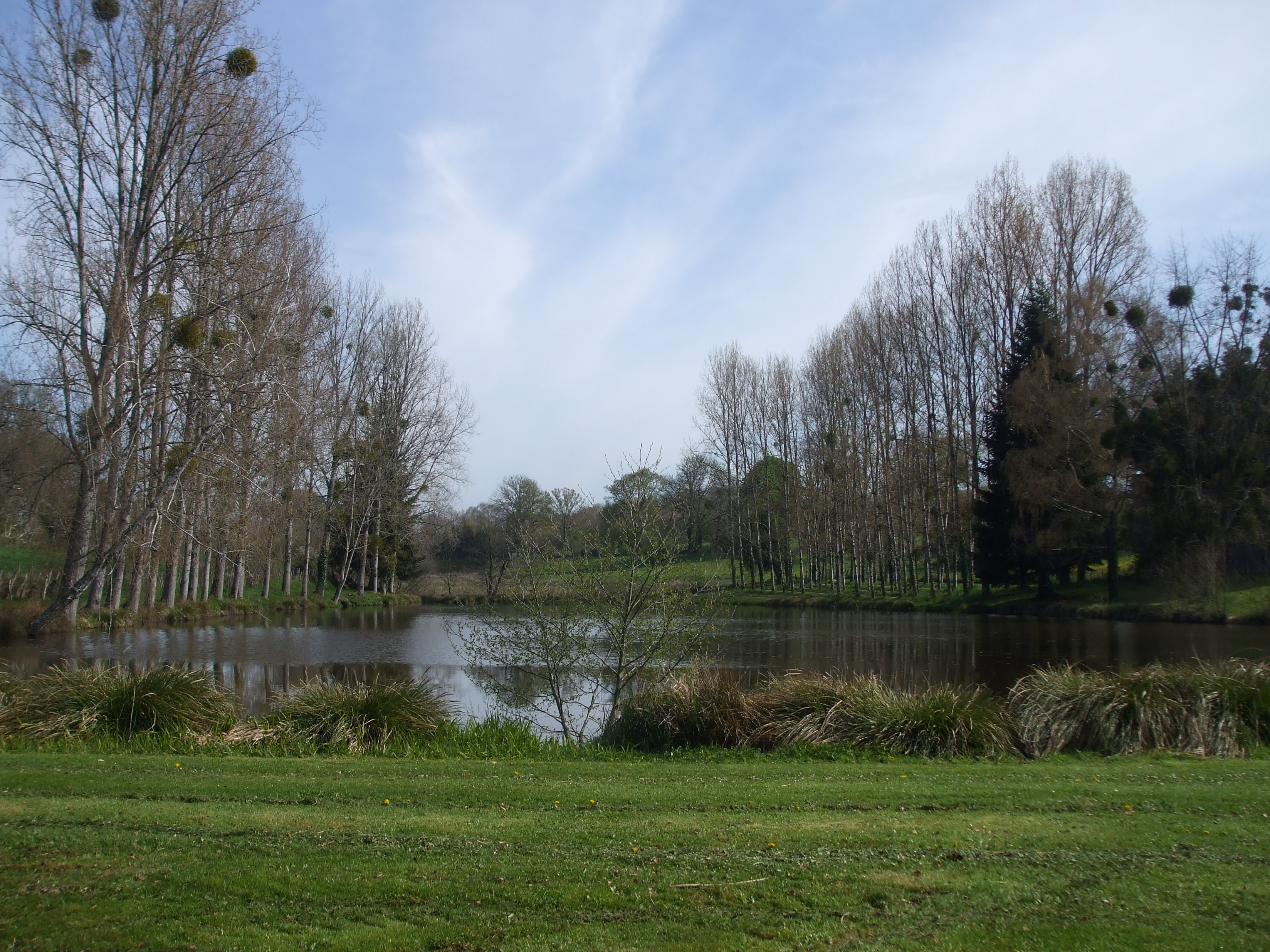 Châlus, Haute-Vienne, France, Séchaud pond